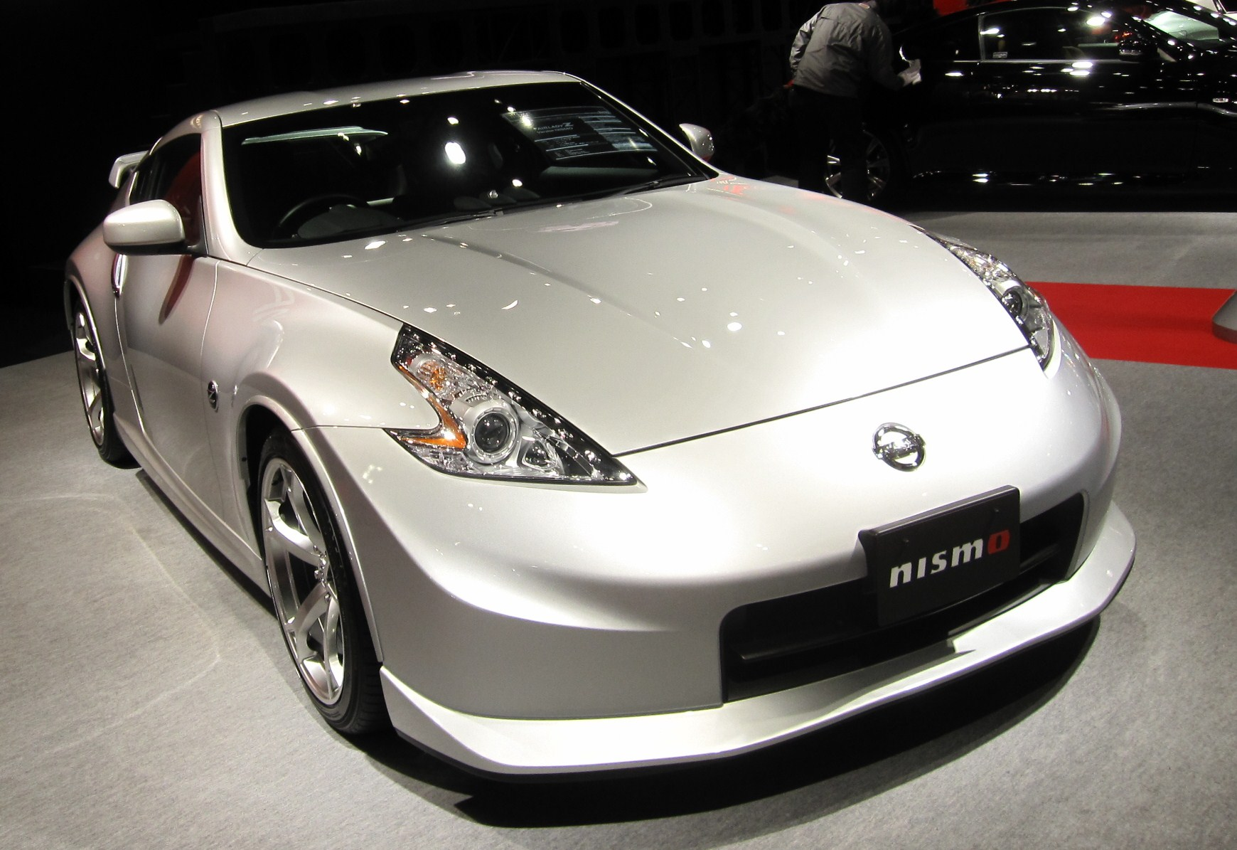 Nissan Fairlady Z Z34 Version NISMO